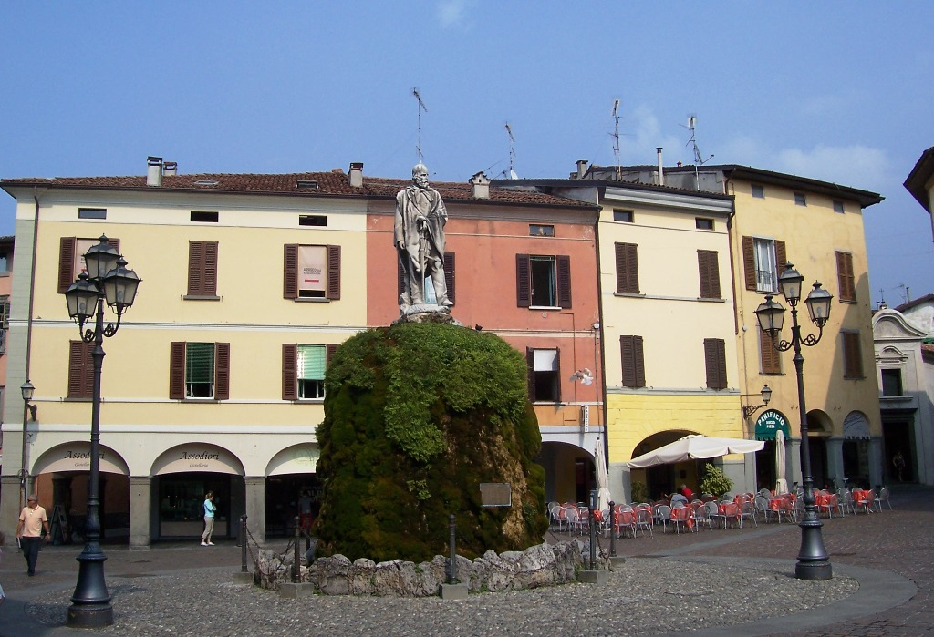 Garibaldi square. Iseo